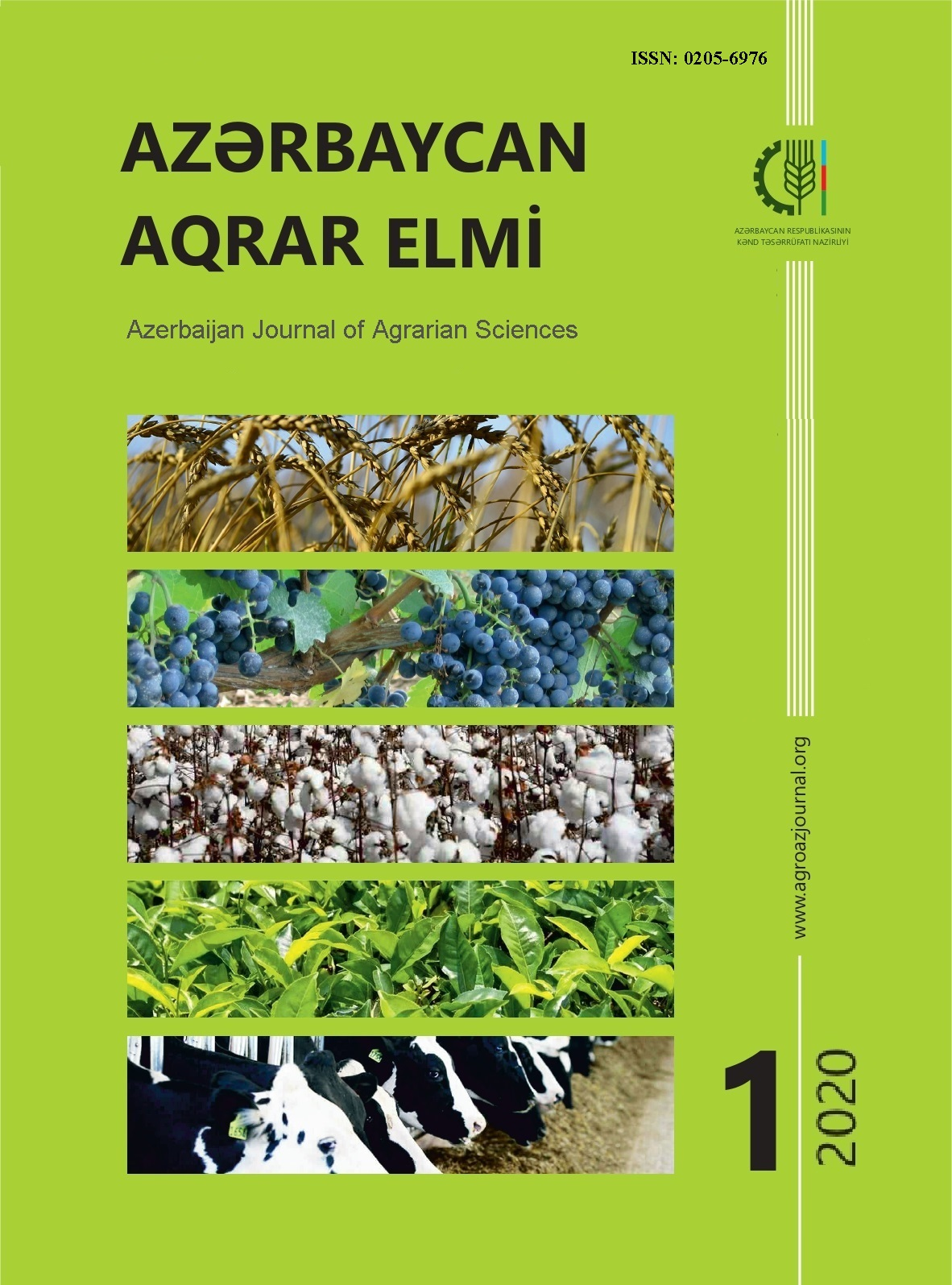 Azerbaijan Journal of Agrarian Sciences